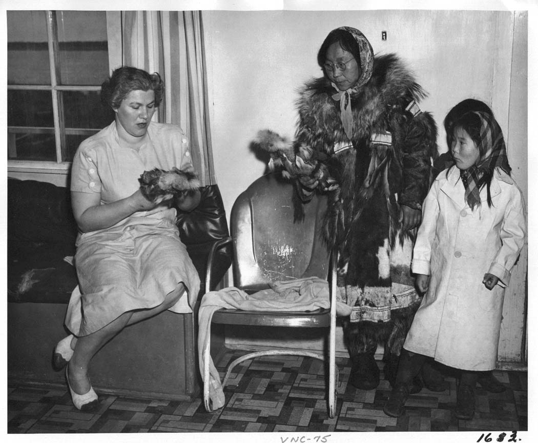 Bethel Family Selling Dolls "Yup'ik Eskimo woman and child with their fur dolls, which they offer for sale at the Bethel Roadhouse." The mother is in traditional clothing. Both are wearing traditional scarves, but the girl's coat is of modern style for the period. There appears to be a second child behind the girl, not mentioned in the FWS caption. FWS keywords: Villages, Wildlife refuges, Yukon Delta National Wildlife Refuge, YUDE, Native Americans, Crafts, Sewing, ARLIS, Alaska U.S. Fish and Wildlife Service. The Pribilof Report 1949. Source FWS-1683 Public domain